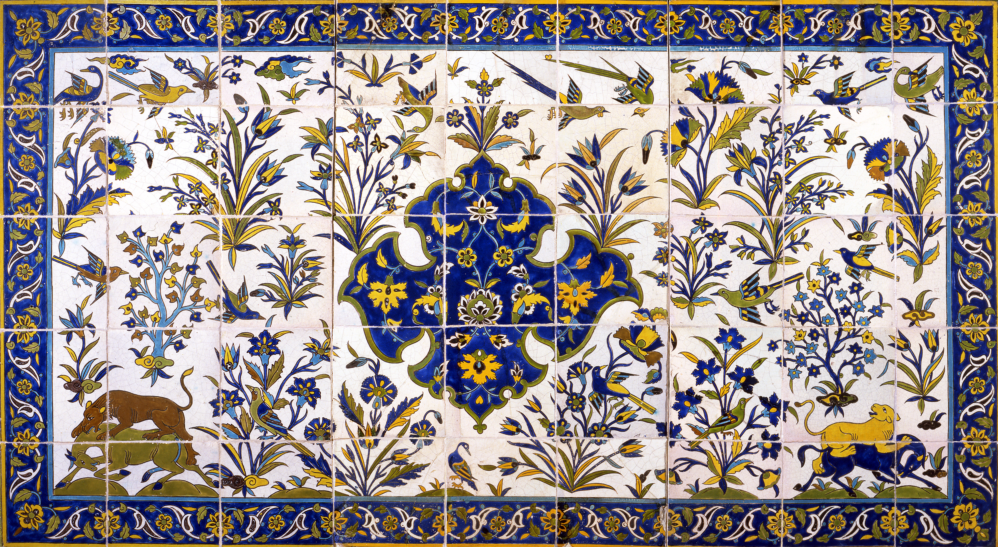 painted tiles with design of birds, hunting and nice flowers from Qajar dynasty